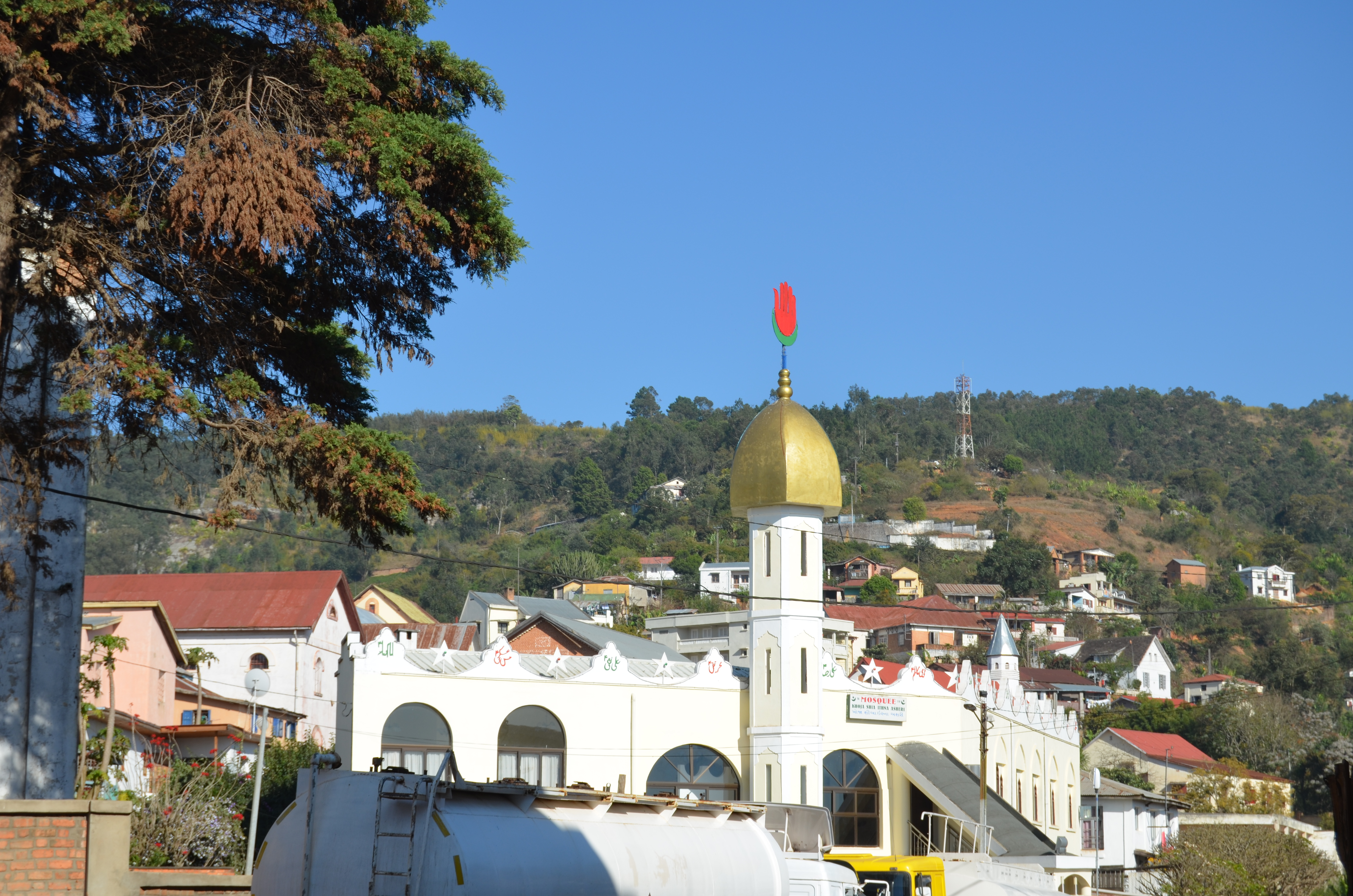 Minaret of the mosque in Fianarantsoa with hand of Fatima.